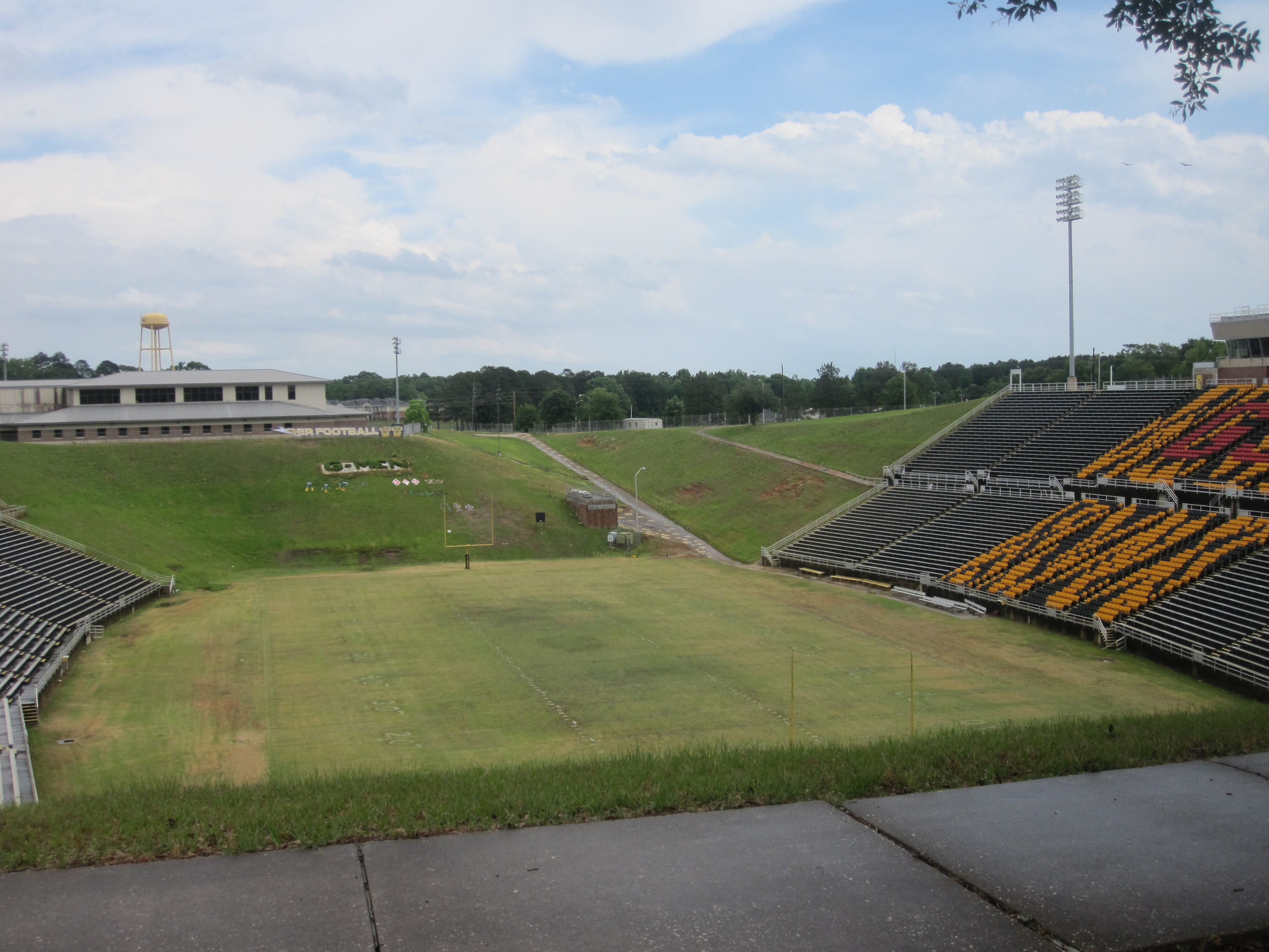 I took photo with Canon camera.